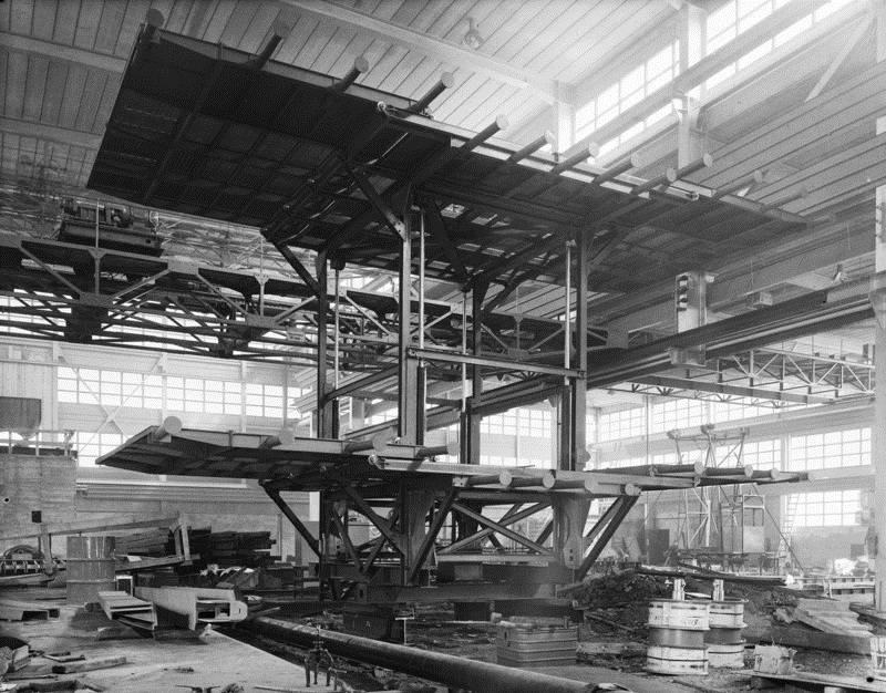 Vulcan engineering works